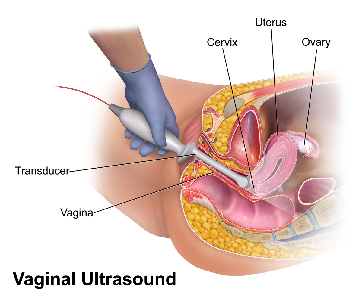 Vaginal Ultrasound. This image was donated by Blausen Medical. Please visit our website to see more medical illustrations and animations.